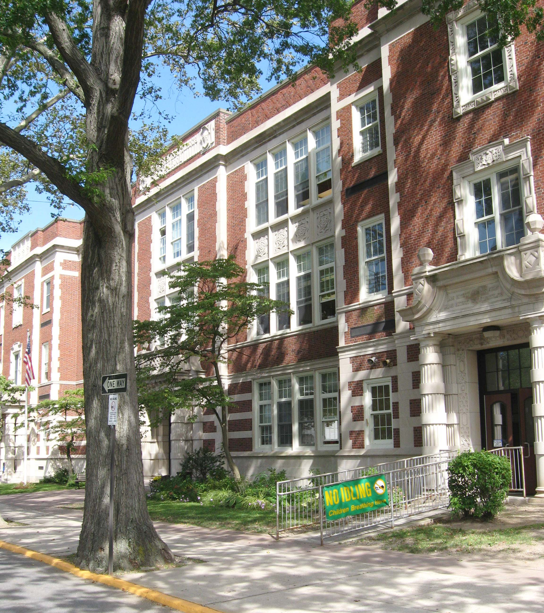 Looking northeast across Forest Park Avenue at Chatsworth Avenue School in Larchmont, New York on a sunny early afternoon.